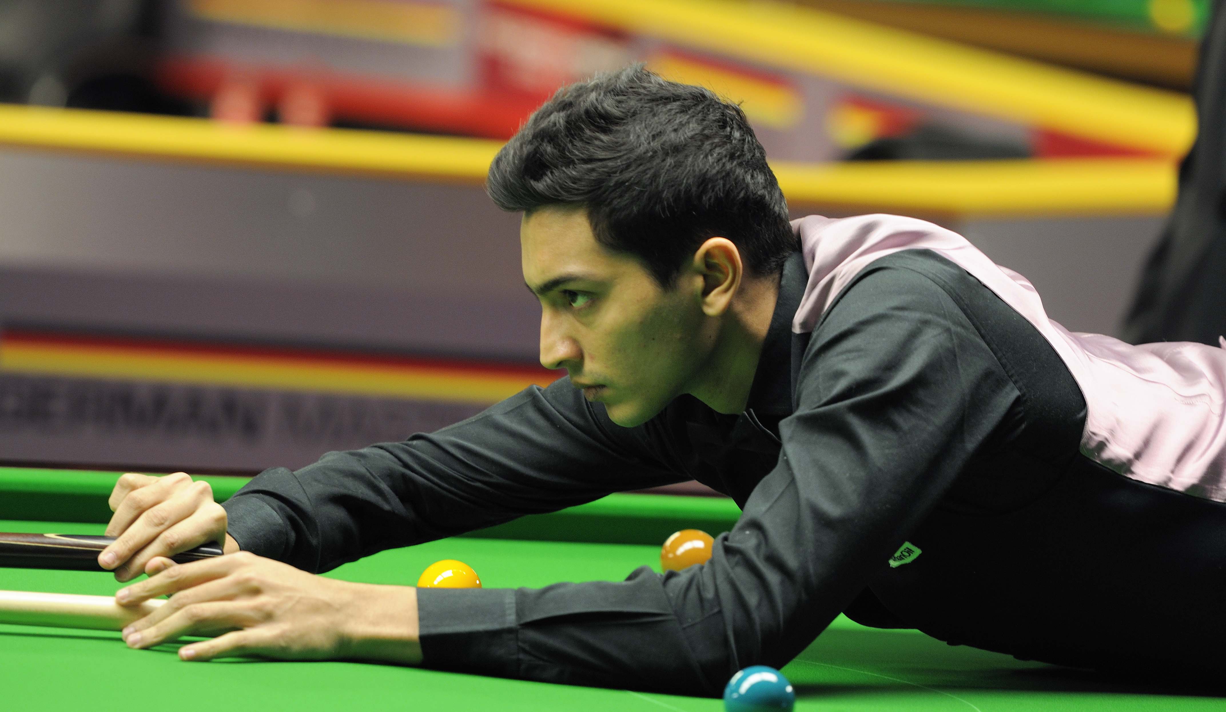 Picture taken in Berlin during the Snooker German Masters in 2014. Aditya Mehta.